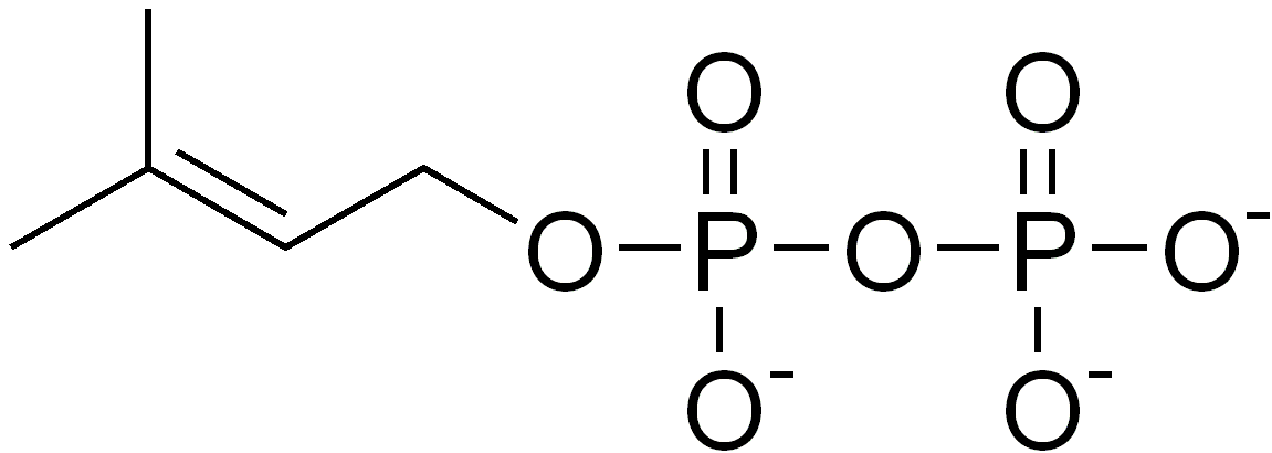 Chemical structure of dimethylallyl diphosphate created with ChemDraw.